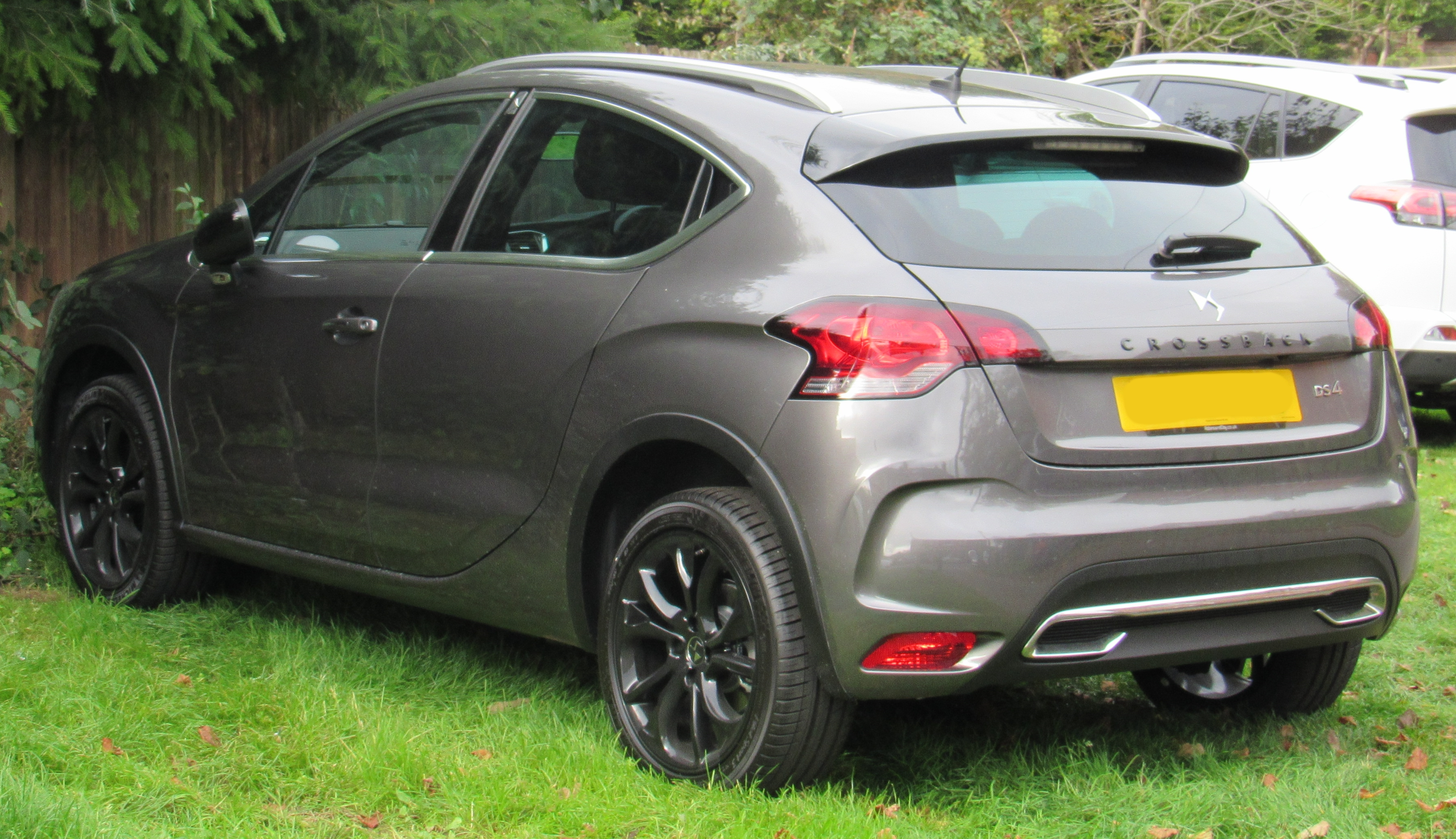 2017 DS DS4 Crossback BlueHDi 1.6 Taken in Leamington Spa